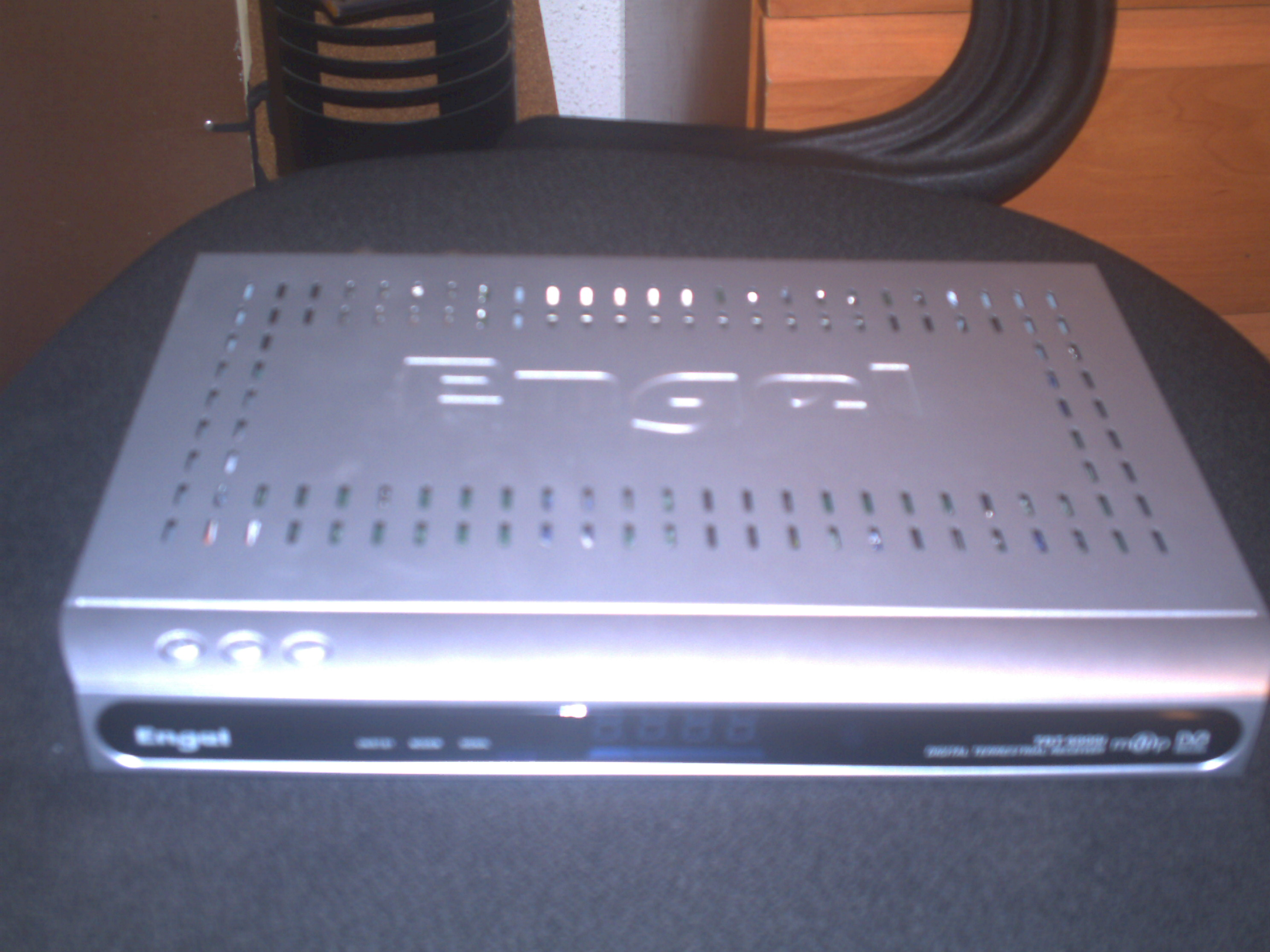 A DVB-T receirver.